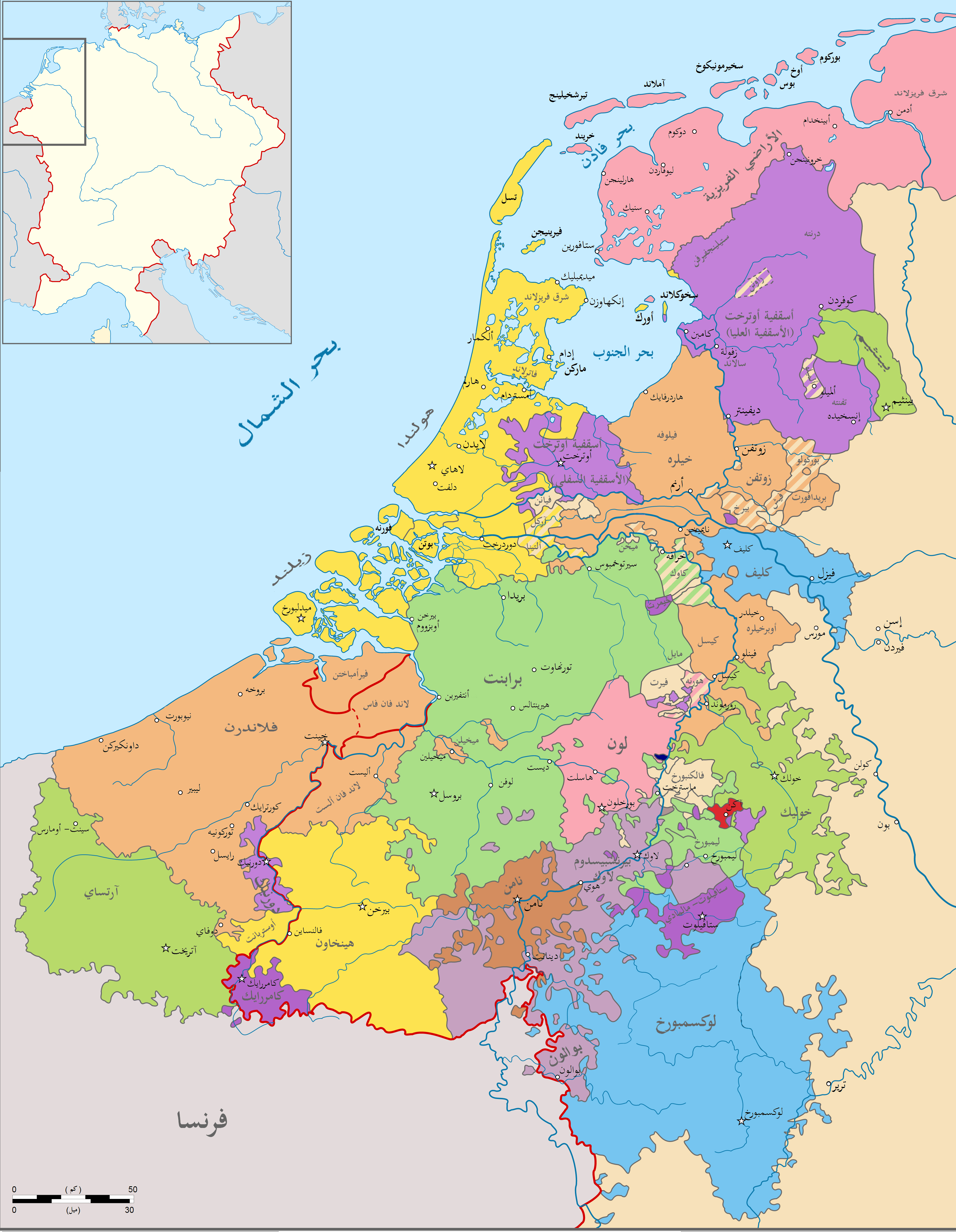 Map of the political situation in the Netherlands around 1350 iِn Arabic.